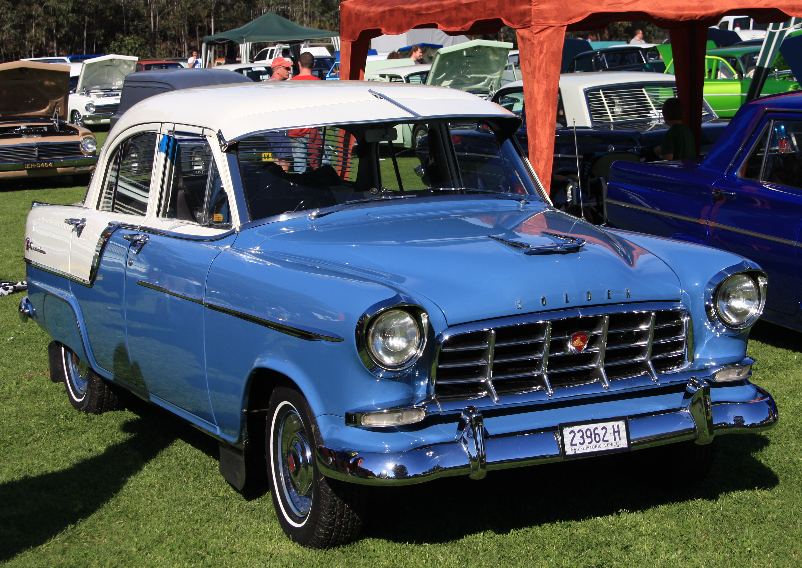 Historical Holden